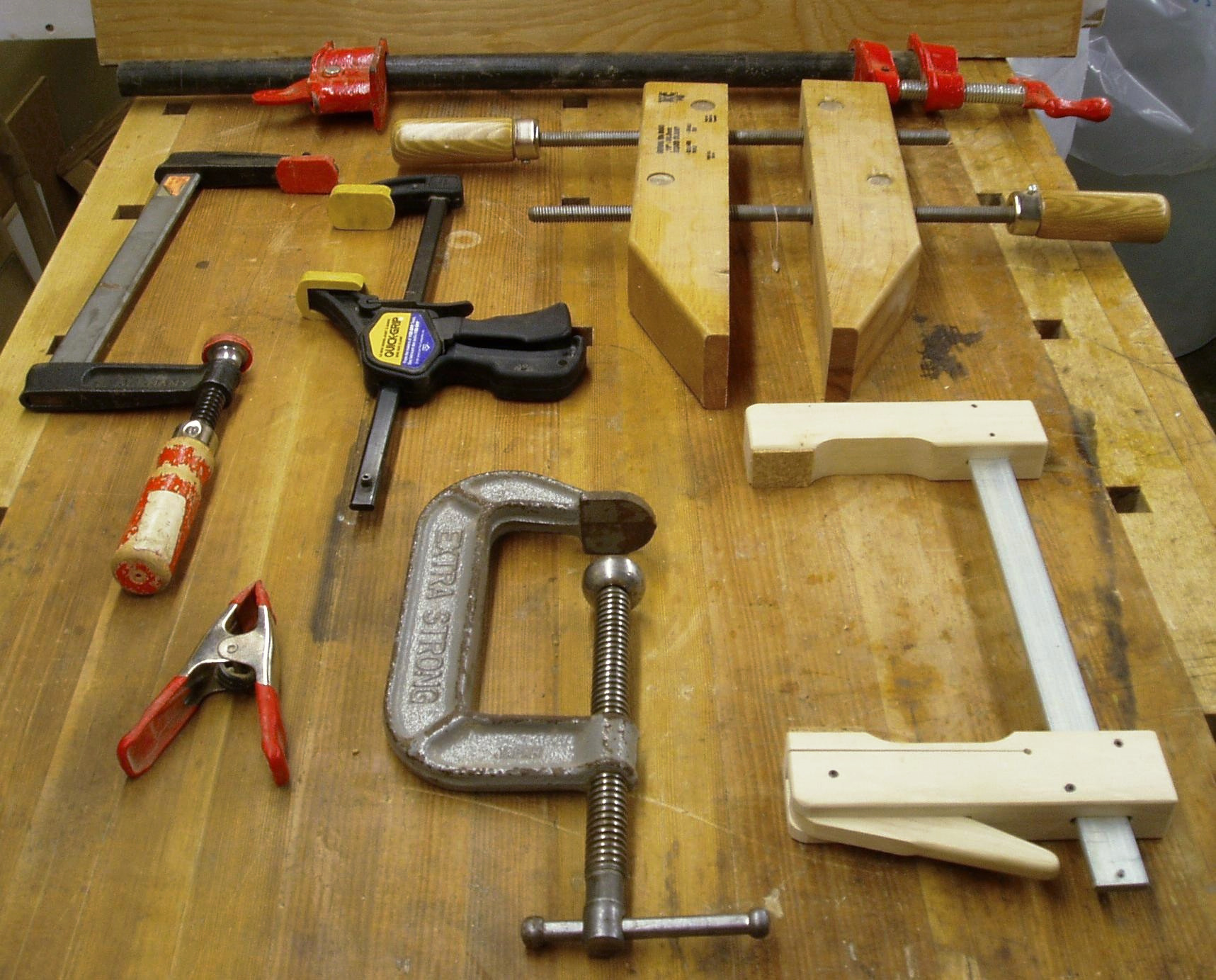 Picture of various woodworking clamps taken 18 September, 2005 by Luigi Zanasi (myself) on my workbench using a Olympus digital camera. Top: Pipe clamp 2nd row from top: F-clamp or bar clamp, one-handed bar clamp ("Quick Grip"), wooden handscrew 3rd row: spring clamp, C-clamp (G-cramp — UK), cam clamp